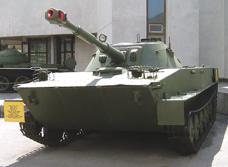 Soviet PT-76 amphibious tank, on display near the Museum of the Great Patriotic War, Kiev, August 2005 Image by ChrisO 20:25, 26 September 2005 (UTC)